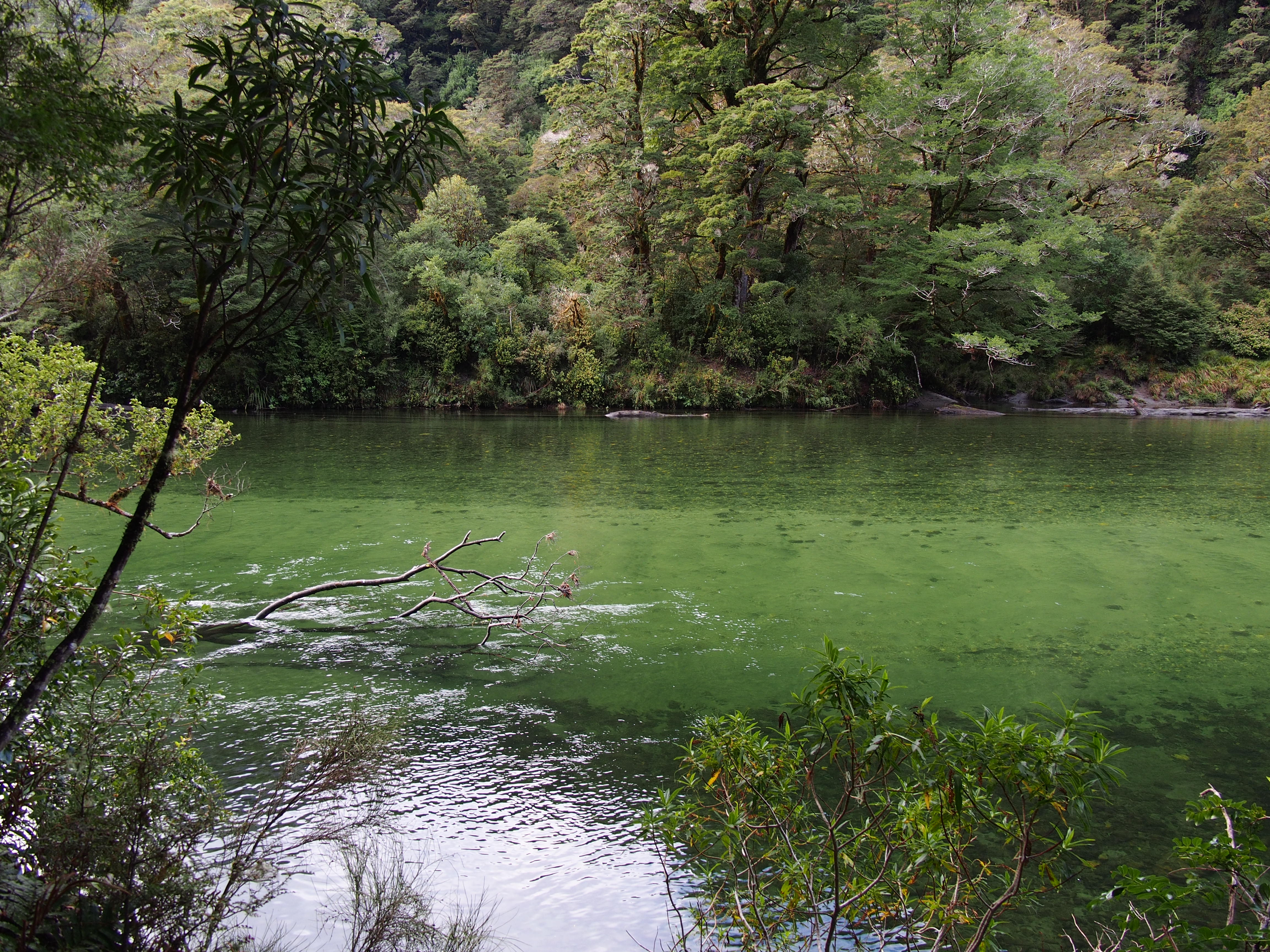 Clinton River - 2013.04